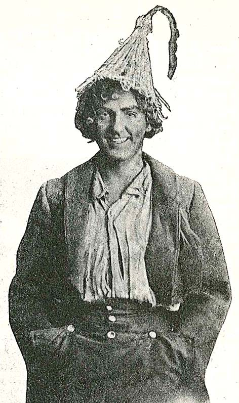 Nils Ranft (1896-1974), Swedish actor. Son of Albert Ranft.